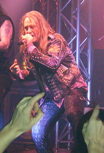 Andi Deris @ Helloween Live at Löwensall in Nuremberg (01.18.2006)